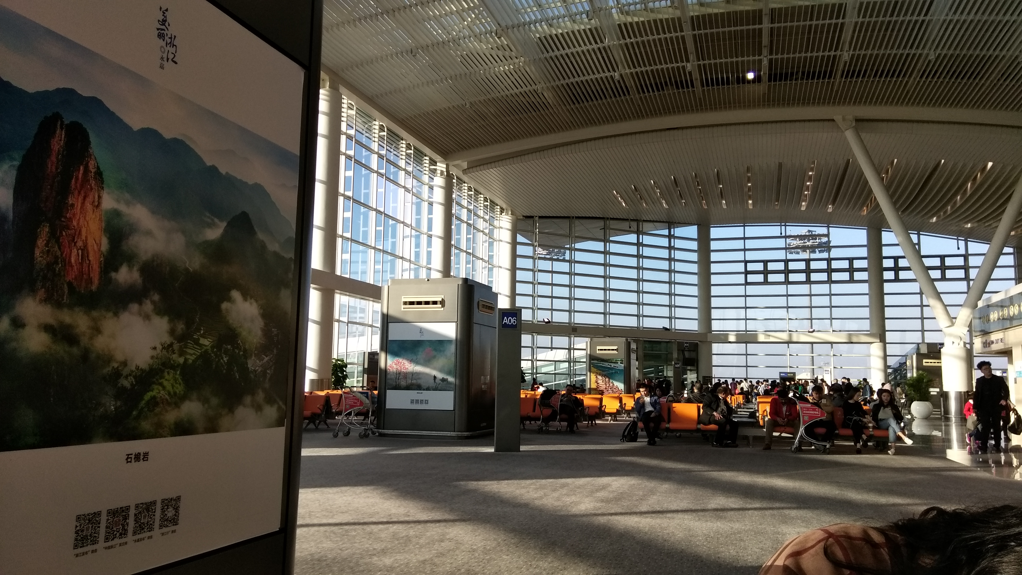 Airport of Hangzhou